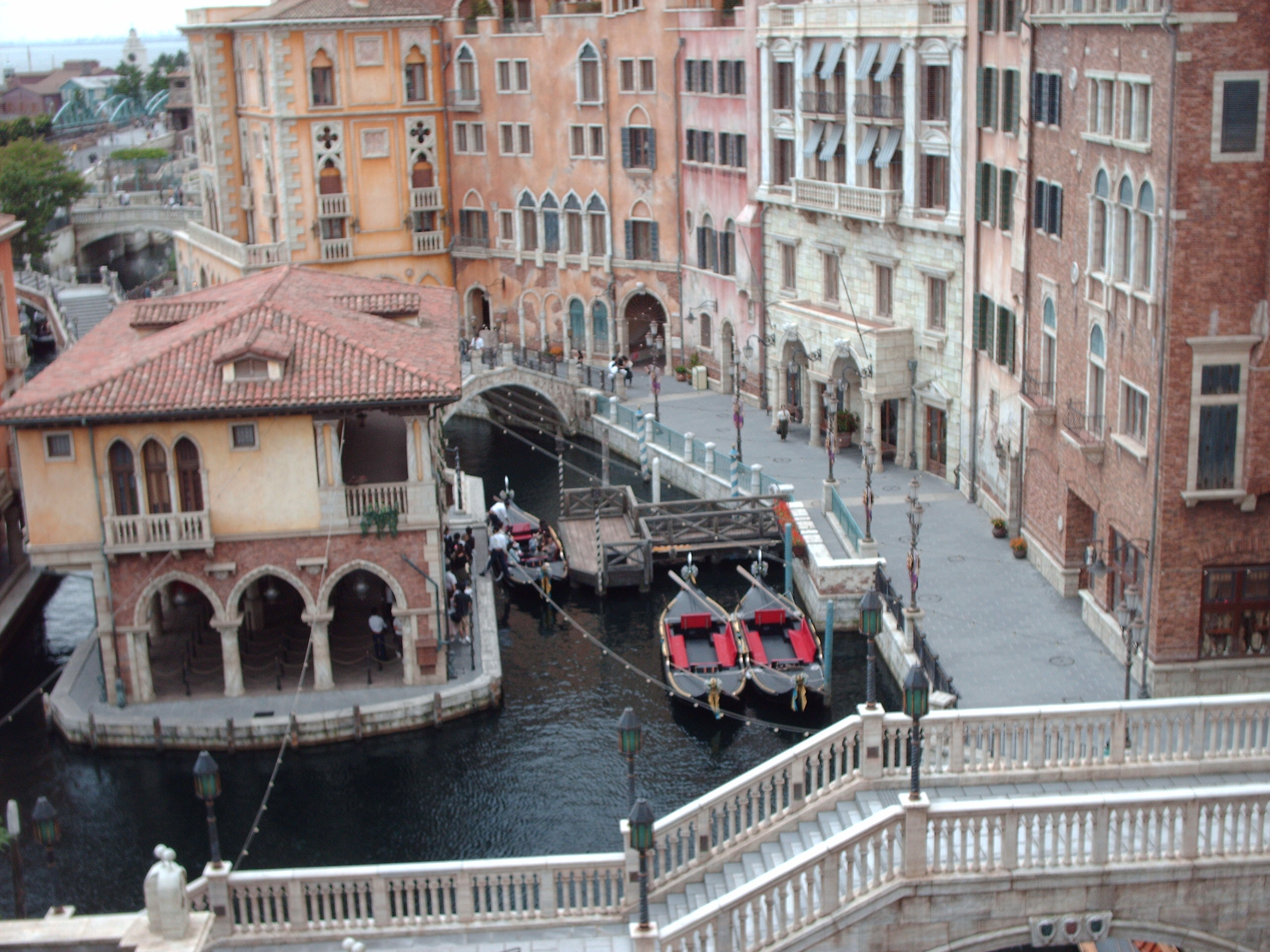 A look out into the Venice area within Tokyo DisneySea, Japan